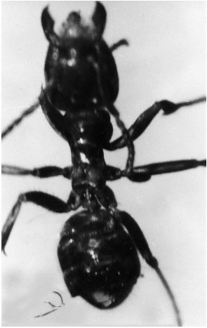 Three dauer juveniles of Formicodiplogaster myrmenema adjacent to a worker of Azteca alpha in Dominican amber.